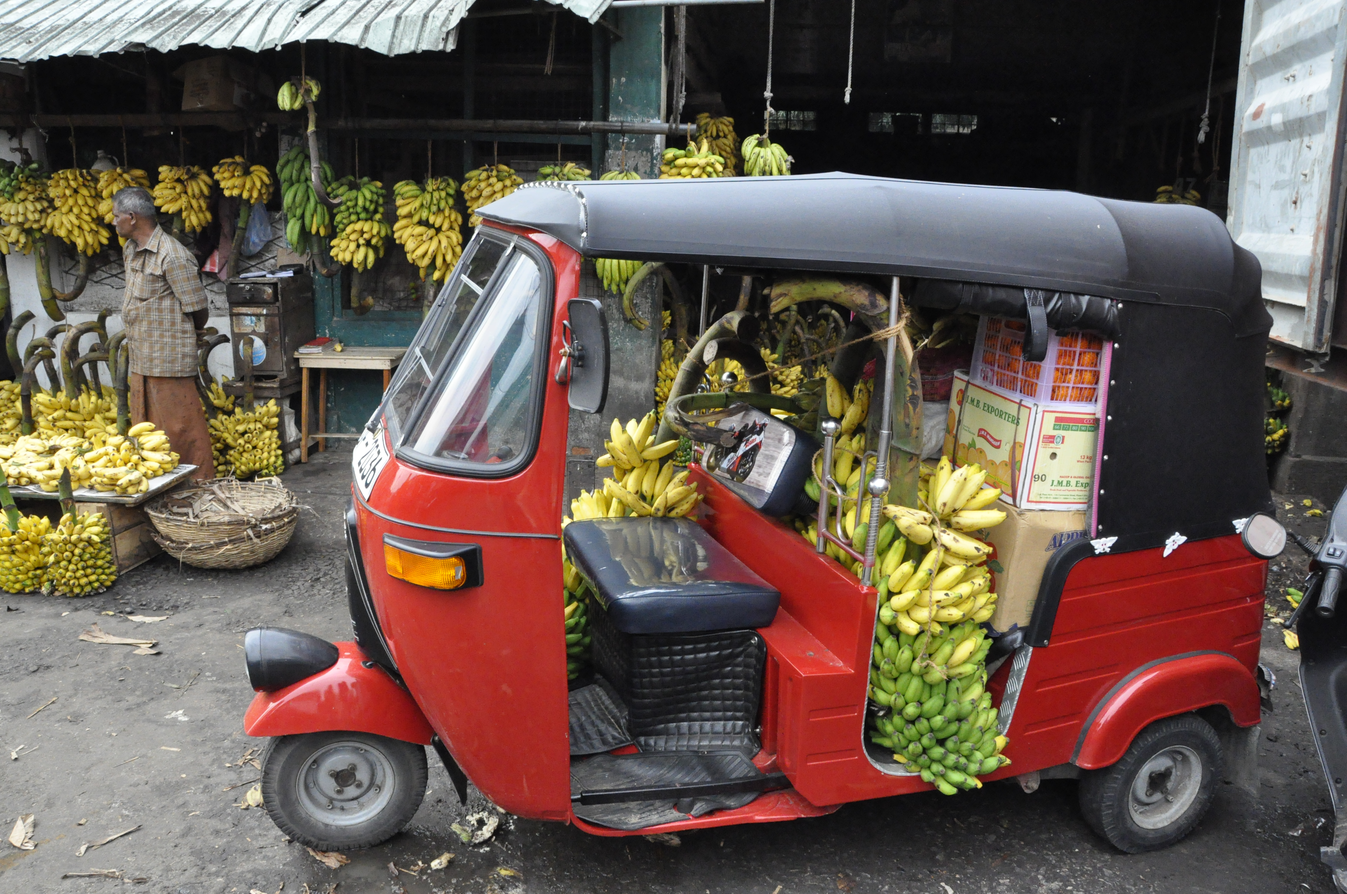 Auto rickshaw in Colombo, Sri Lanka